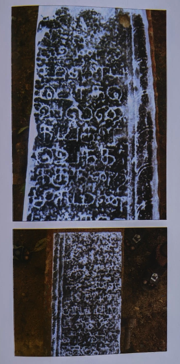 Villunti Kantucuvami Koyil inscription of Buddhapriya